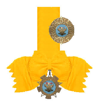 Order of the Aztek Eagle Mexico Grand Cordon